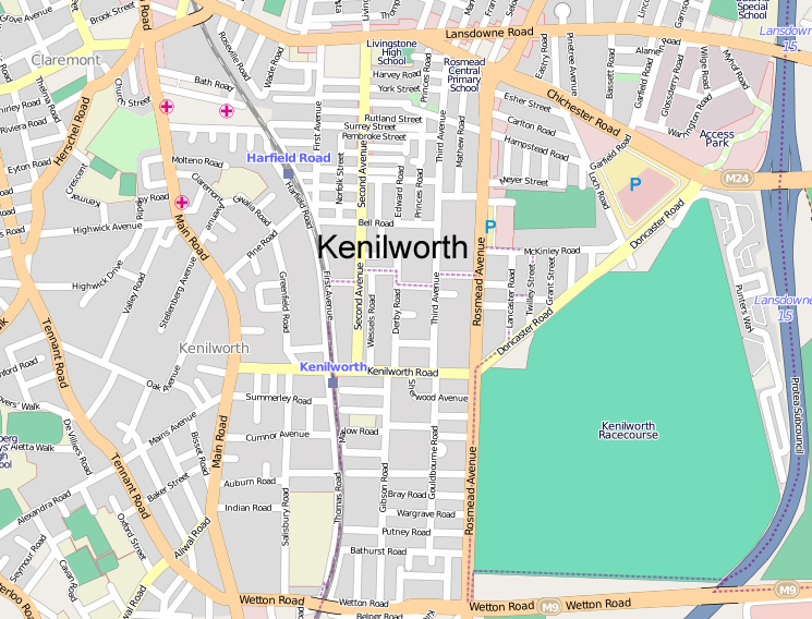 This map of Kenilworth in Cape Town was created from OpenStreetMap project data, collected by the community This map may be incomplete, and may contain errors. Don't rely solely on it for navigation.